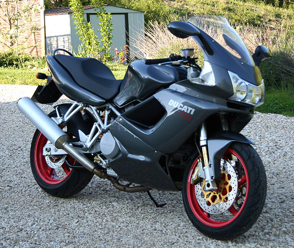 Ducati ST3s ABS (2006)